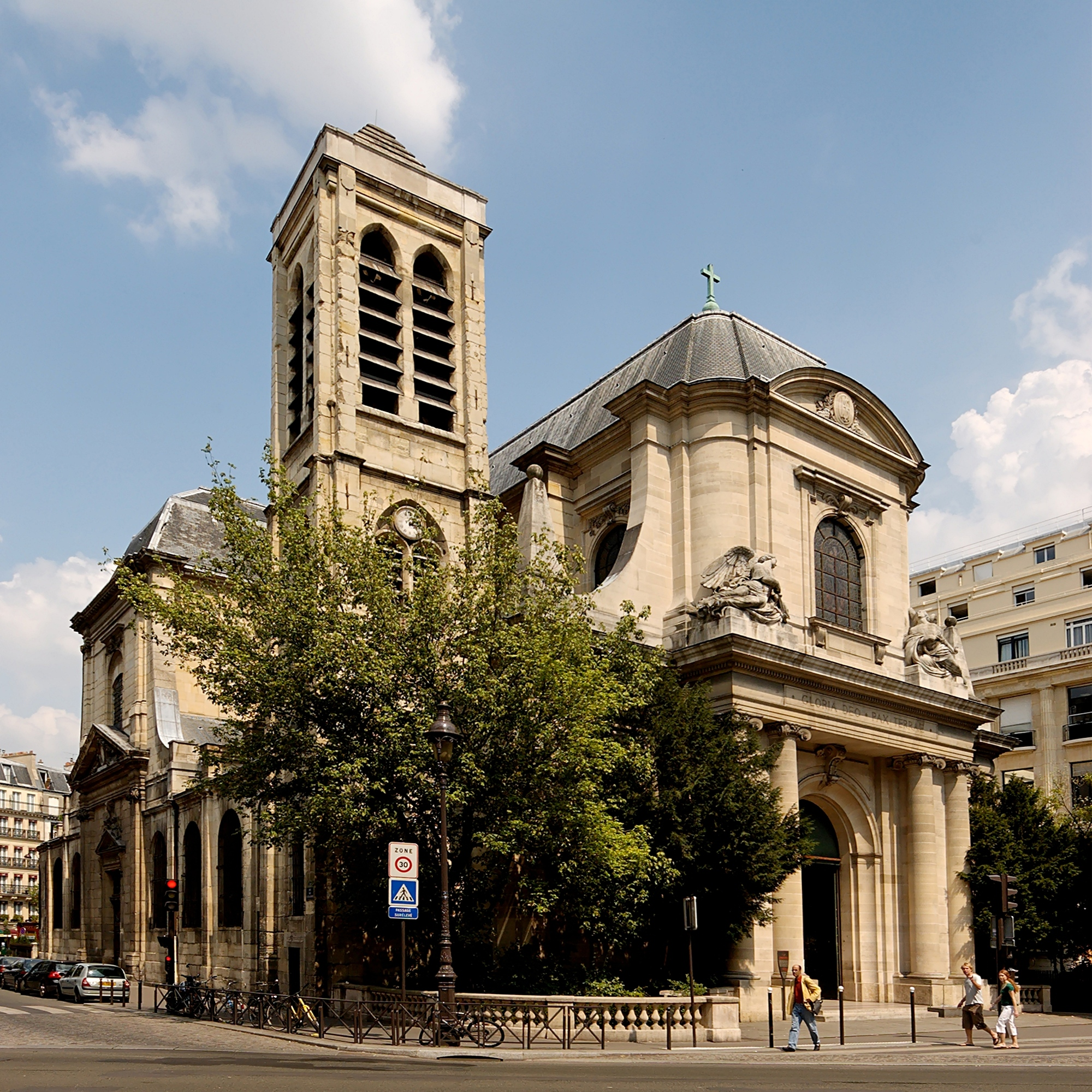 Façade of the catholic church Saint-Nicolas-du-Chardonnet, built in the 16th-17th centuries. Rue des Bernardins, Paris.